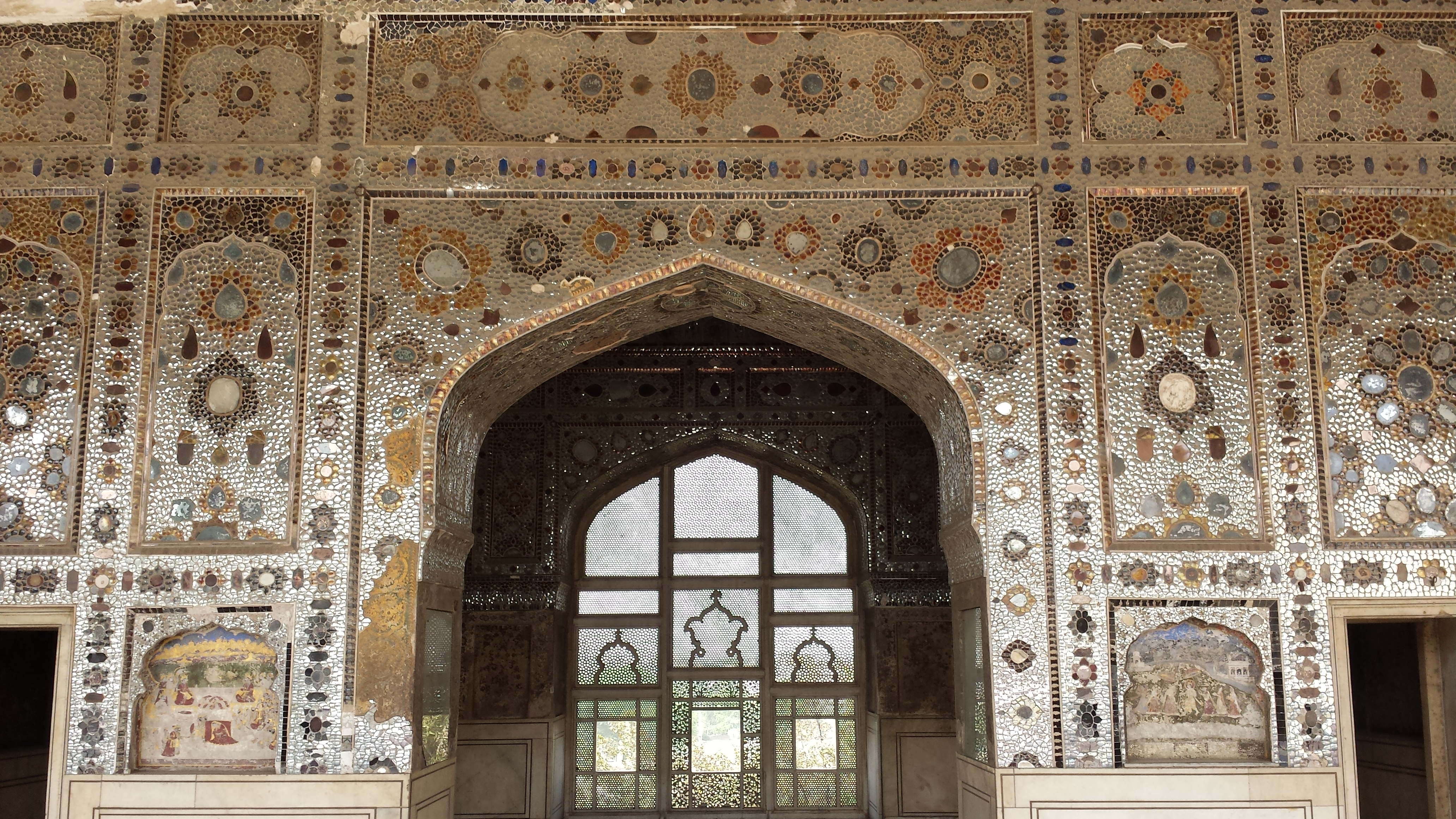 Lahore Fort complex (including Moti Masjid, Naulakha Pavilion, Sheesh Mahal and others) This is a photo of a monument in Pakistan identified as the PB-67